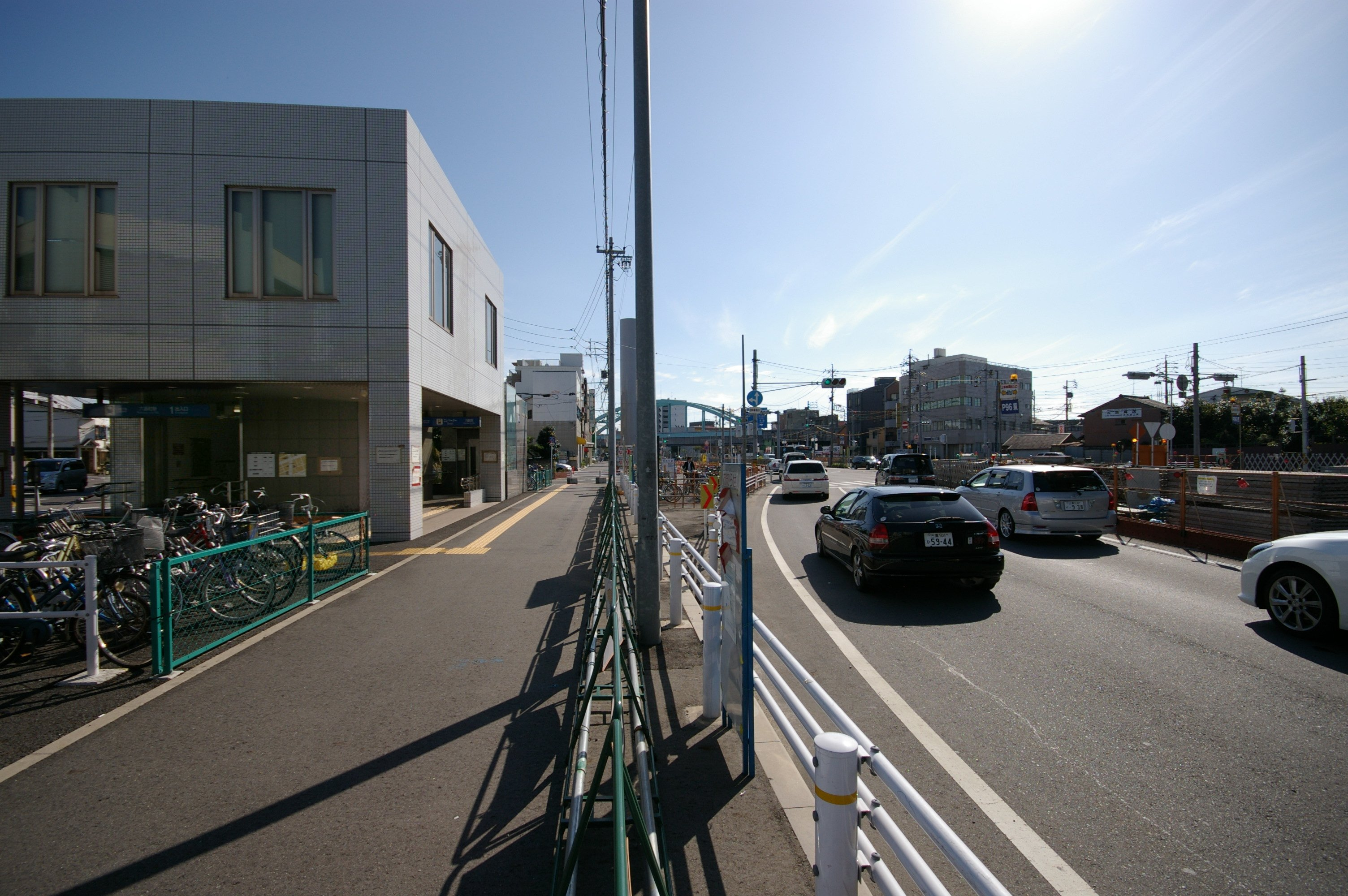 Nagoya Subway Rokuban-chō Station